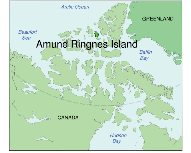 Created based on images from the CIA's World Fact Book.